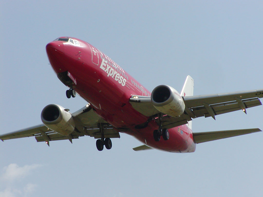 Boeing 737 of Virgin Express. (Eigen foto)